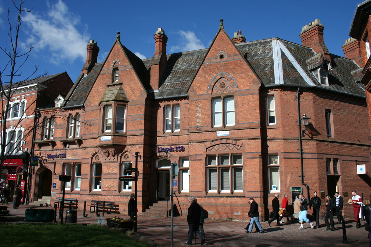 1-3 Churchyardside, Nantwich, Cheshire